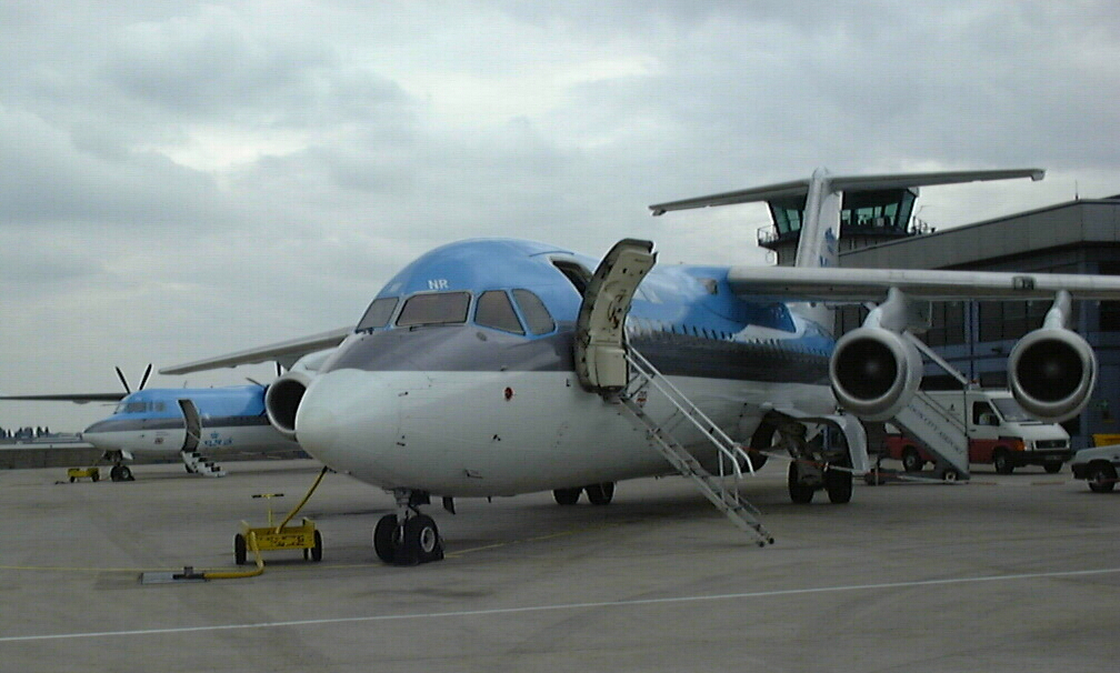 A KLMuk BAC146 @ London City Airport